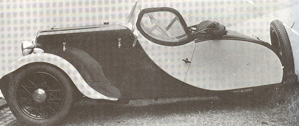 1935 Coventry-Victor